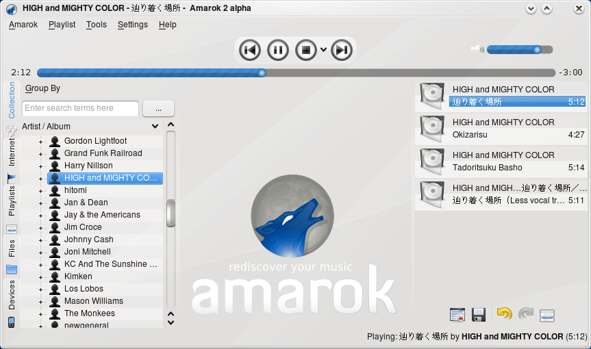 A screenshot of a nightly build of Amarok 2.0, an upcoming release.